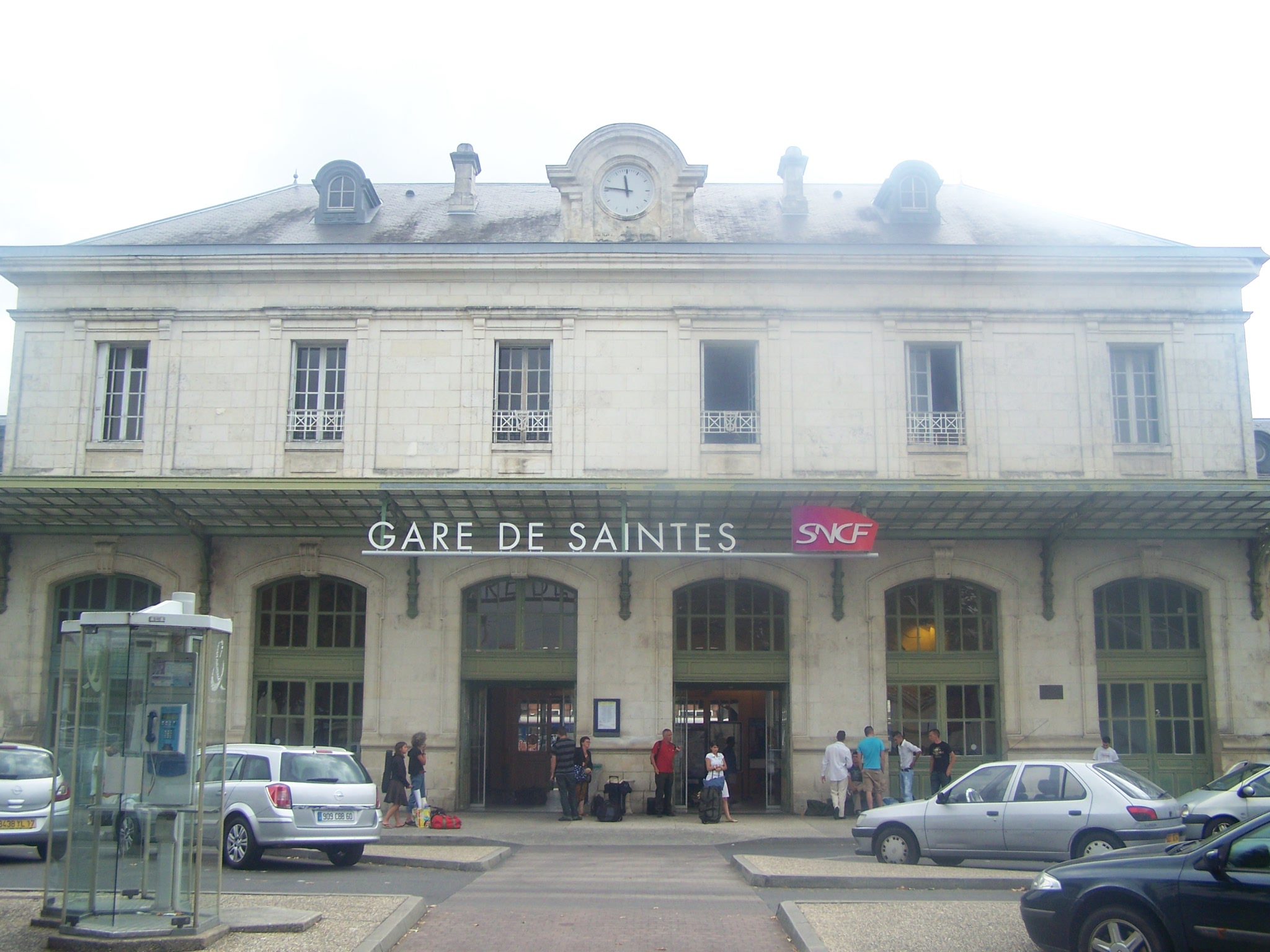 Front of the city of Saintes station, in Charente-Maritime, France.